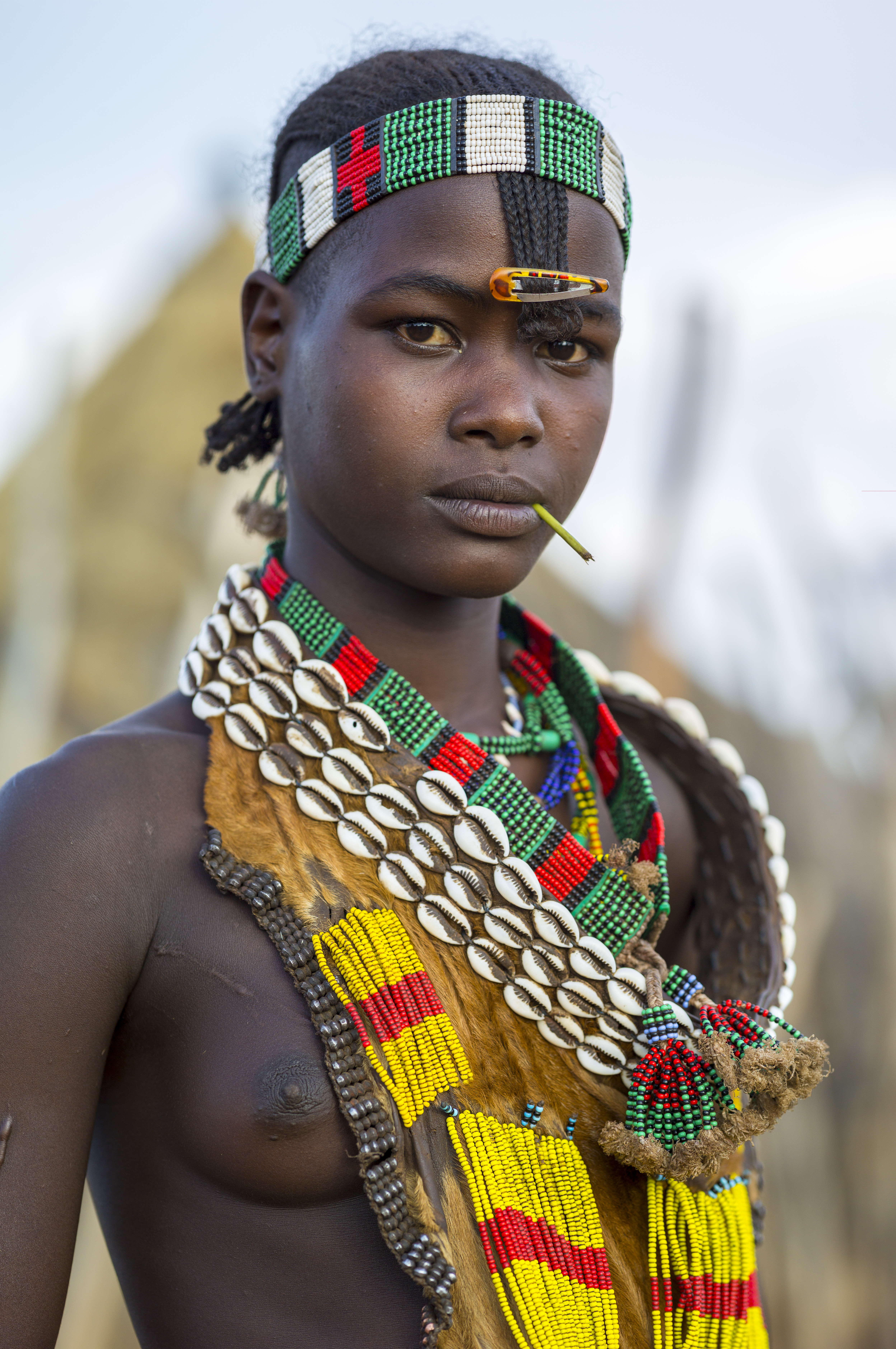 Hamer are one of the most known tribes in southwestern Ethiopia. They inhabit the territory east of the Omo river and have villages in Turmi and Dimeka. They are a semi-nomadic, pastoral people, numbering about 40,000. There is a division of labour in terms of sex and age. The women and girls grow crops (the staple is sorghum, alongside beans, maize and pumpkins). They’re also responsible for collecting water, doing the cooking and looking after the children – who start helping the family by herding the goats from around the age of eight. The Hamar only marry members of their own tribe, but they have nothing against borrowing – songs, hairstyles, even names – from other tribes in the valley like the Nyangatom and the Dassanech. Girls tend to marry at about 17.